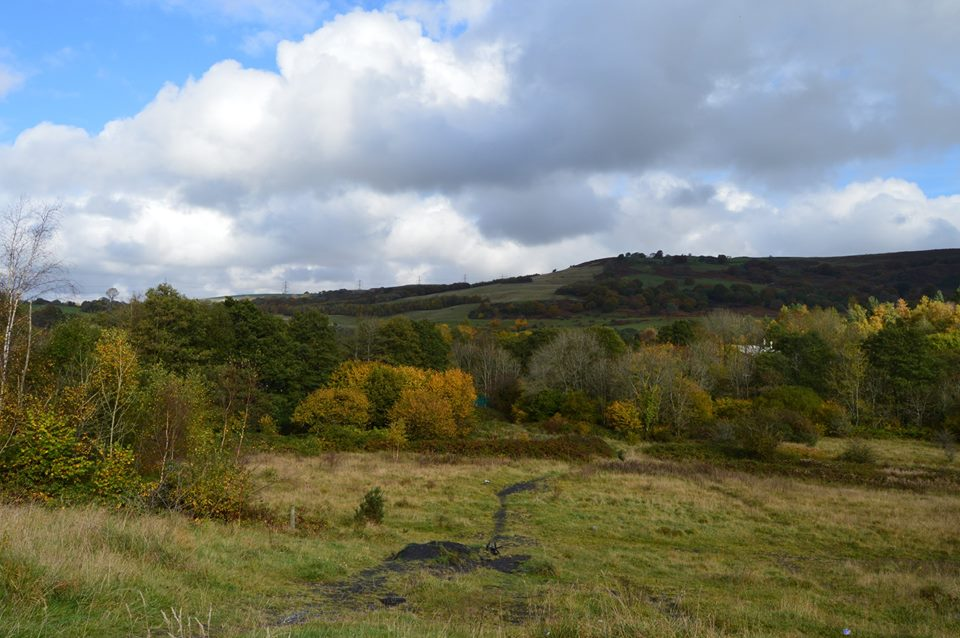 Remains of Pit 1, contributed by Charlie Griffiths